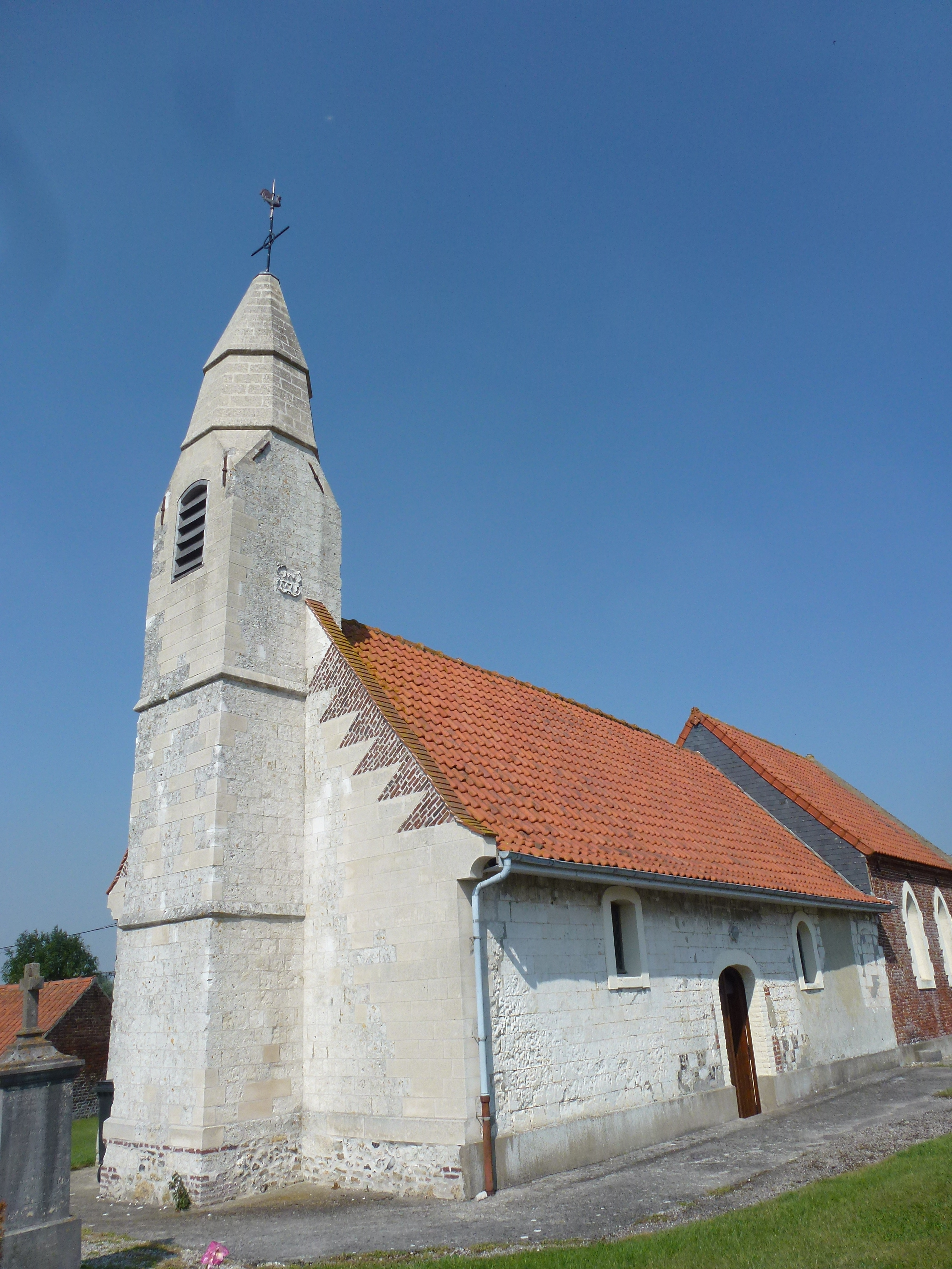 Rebergues (Pas-de-Calais) église Saint Folquin